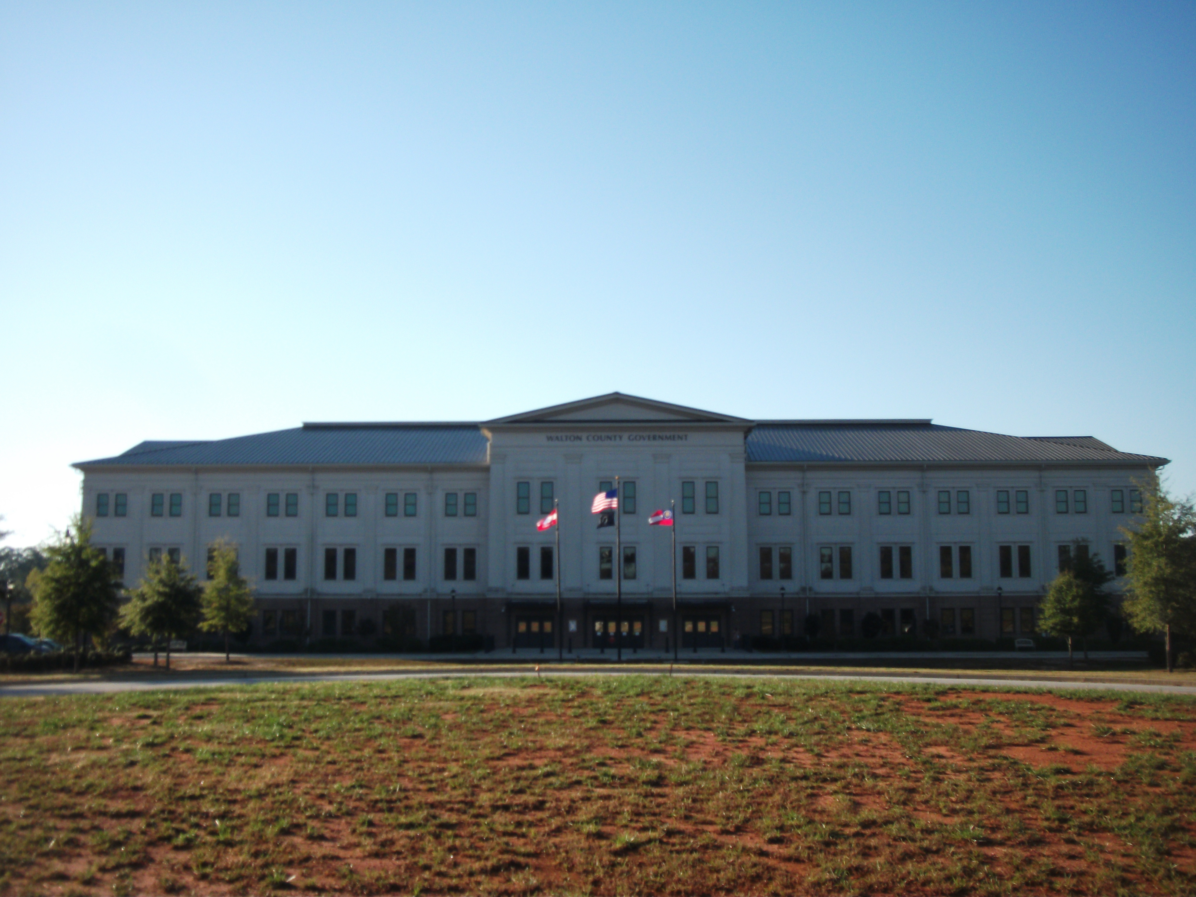 005_Walton County Government Building_Monroe, Georgia.jpg.